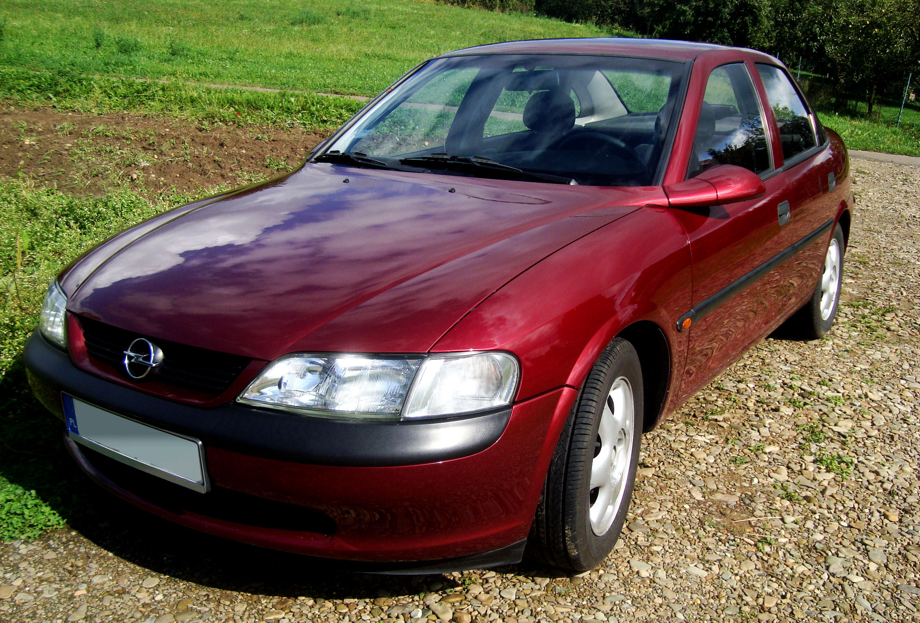 Opel Vectra B '98